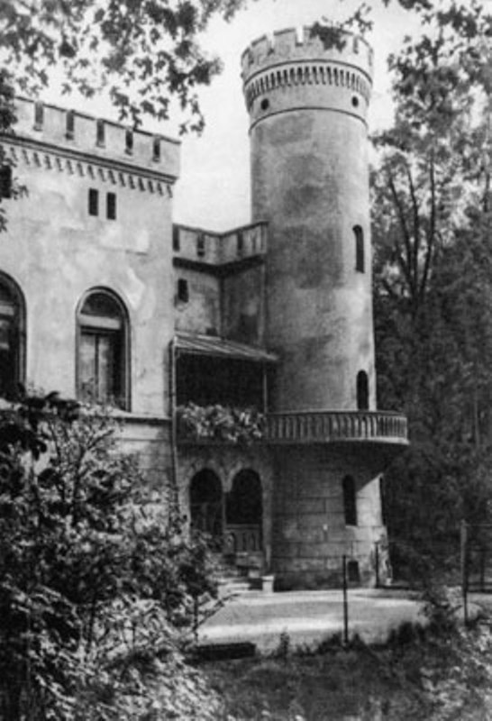 The southwest part of the old palace in Świerklaniec. It was build in the 19th century in the Tudor Style and burned down in 1945. The ruins were pulled down in 1961.